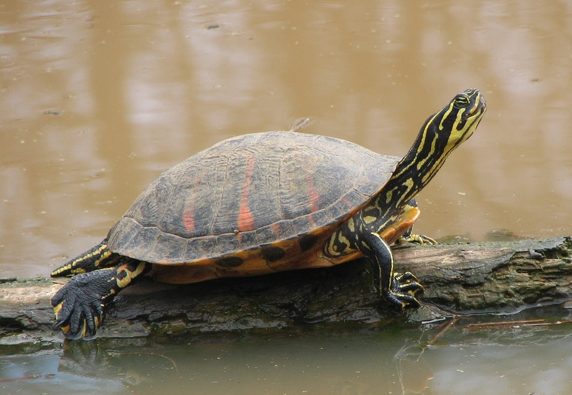 A photo of a Florida Redbelly turtle at a pond in South Carolina, USA. The picture was taken mid-day, EST, on March 14, 2008.